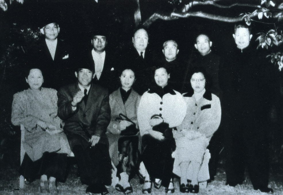 Soong Ching-ling, Sukarno and others were in Shanghai. back row: Chen Yi(4th right), Cao Diqiu(3rd right), Xu Jianguo(2nd right), Huang Zhen(1st right)